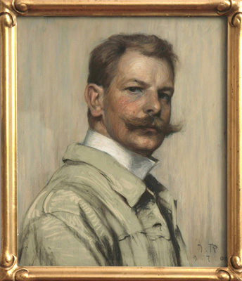 Johannes Rudolphi, painter, self-portrait